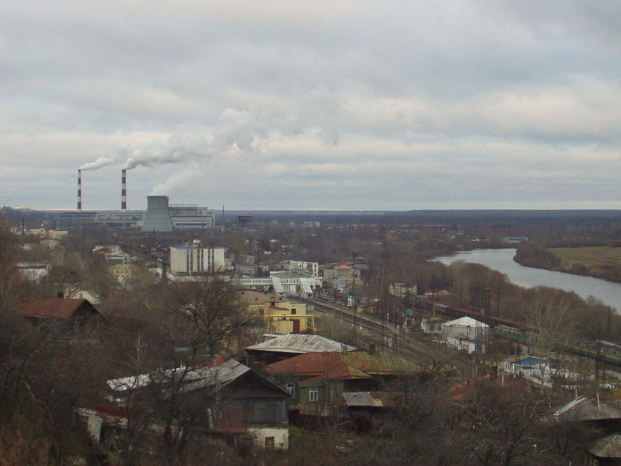 Vladimir city in Russia: view of railroad station and Klyazma river in November 2003 - placed for comparison of Sergei Mikhailovich Prokudin-Gorskii photo of the same place of 1911, restored in color by U. S. Library of Congress in 2004